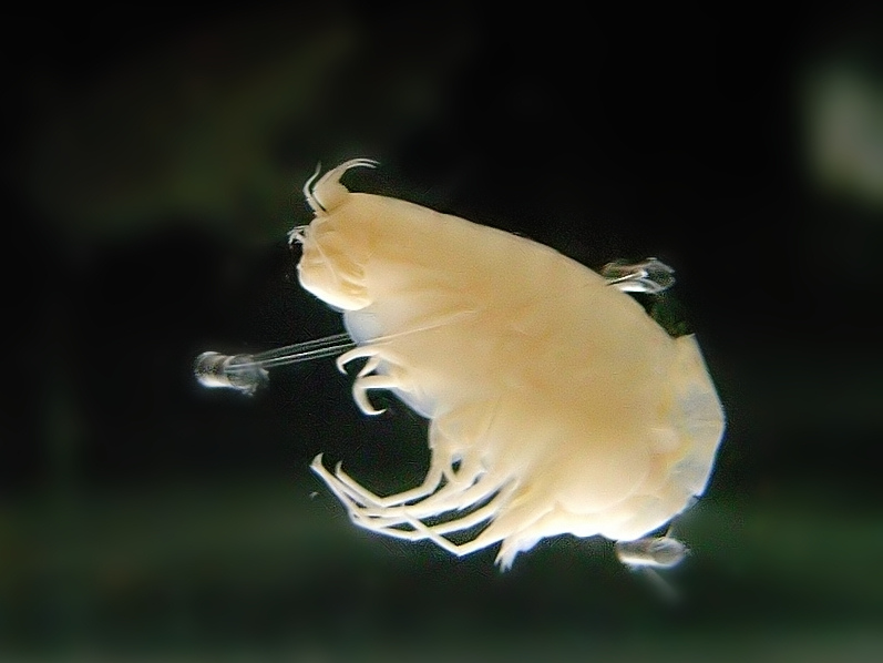 カイコウオオソコエビ A kind of Amphipod. Lived in 10900m depth in the Mariana Trench. Species Hirondellea gigas Familia Uristidae Location Shin-Enoshima Aquarium, Japan Copyright OpenCage